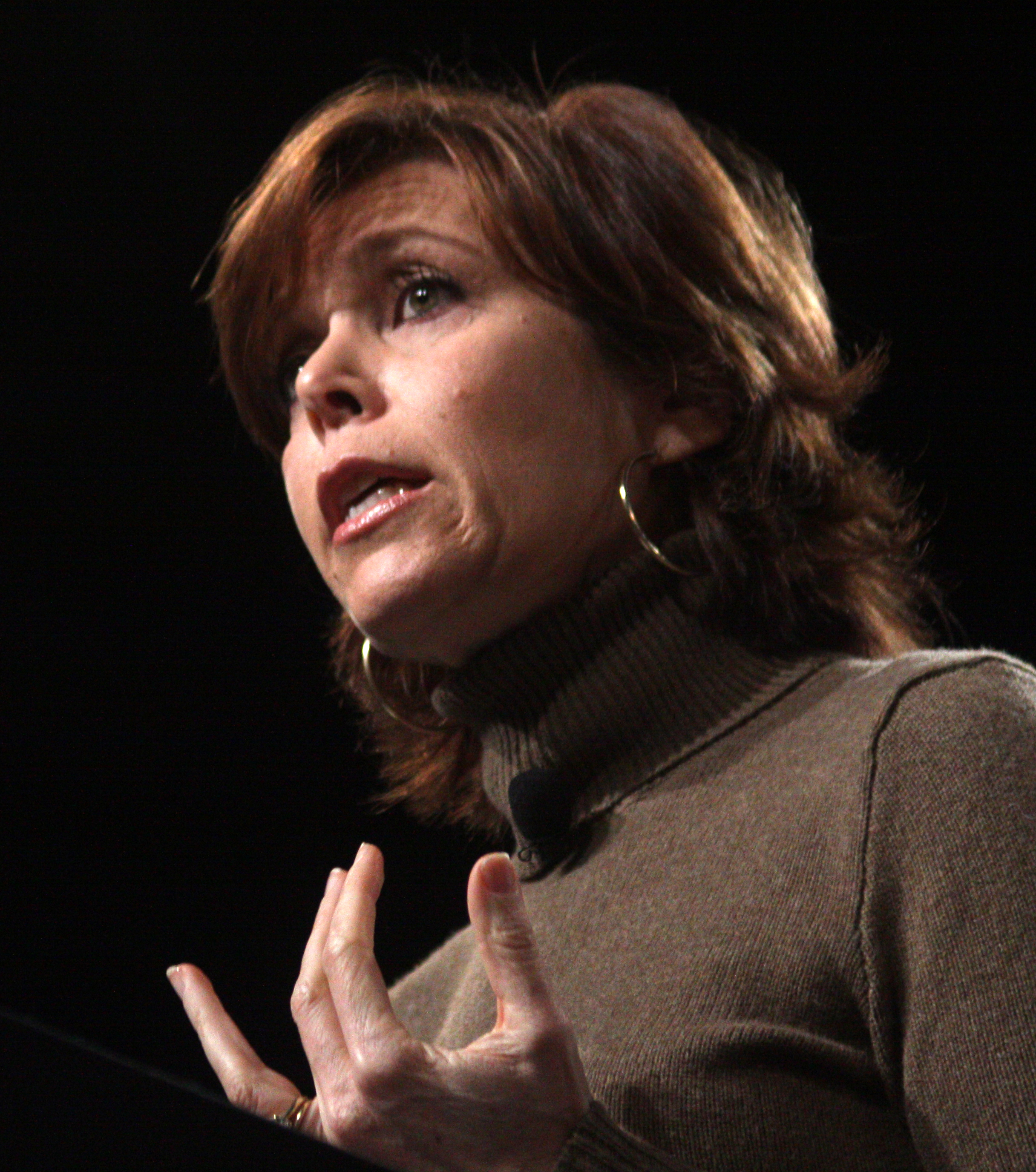 Heather Higgins speaking in Phoenix, Arizona on February 26, 2011.